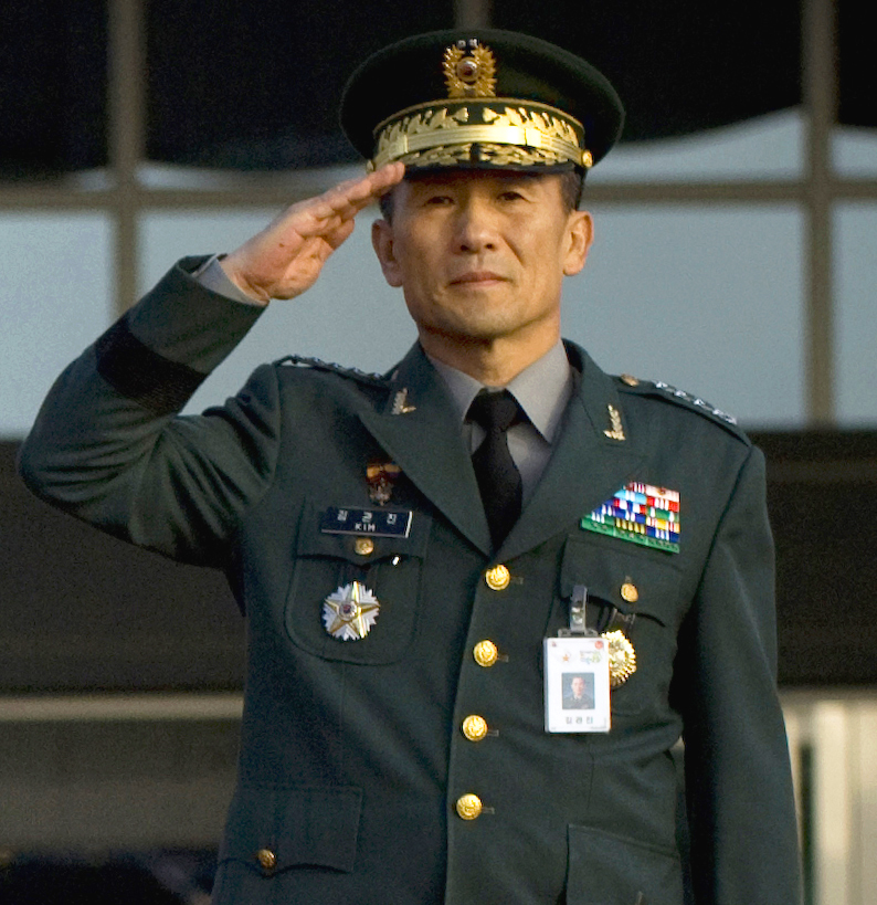 Korean Chairman of the Joint Chiefs of Staff, Gen. Kim Kwan-Jin